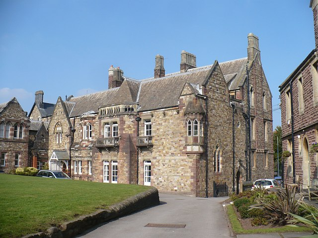 St Michael's is a theological college serving the Anglican and Methodist Churches and the work of chaplaincy in partnership with Cardiff University.